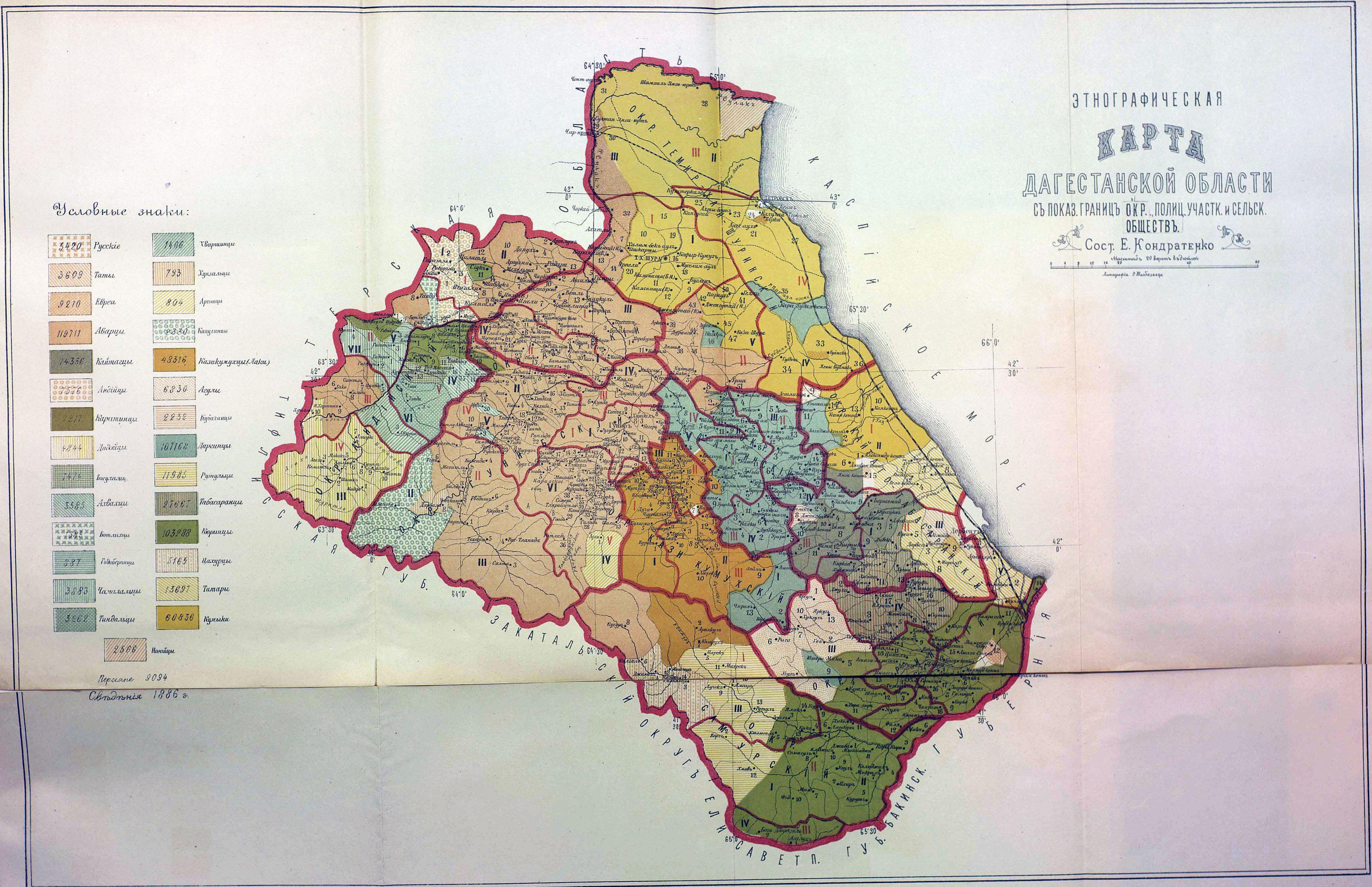 Daghestan ethnographic map with the boroughs, police districts, rural communities limits shown. Compiled by E. Kondratenko. Scale 20 versta per inch. Data from 1886.